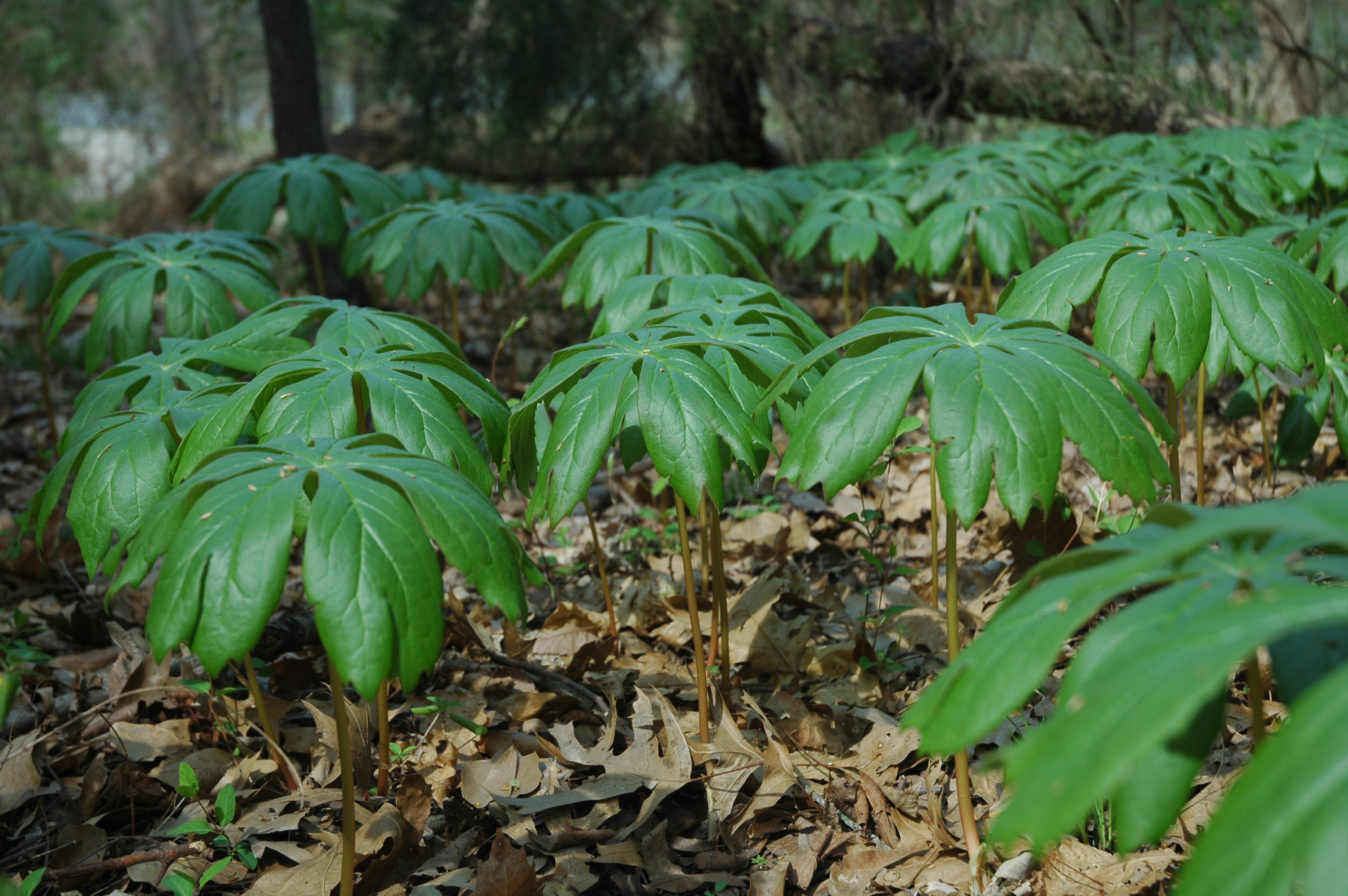 The single (umbrella) leaf variety of Mayapple (Podophyllum peltatum) growing at Clear Creek Park, Crawford County, Arkansas.